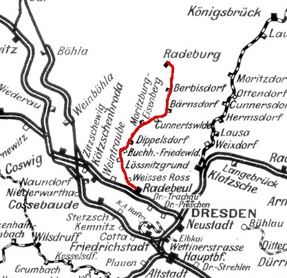 Railway network of the Royal Saxon State Railways of 1902